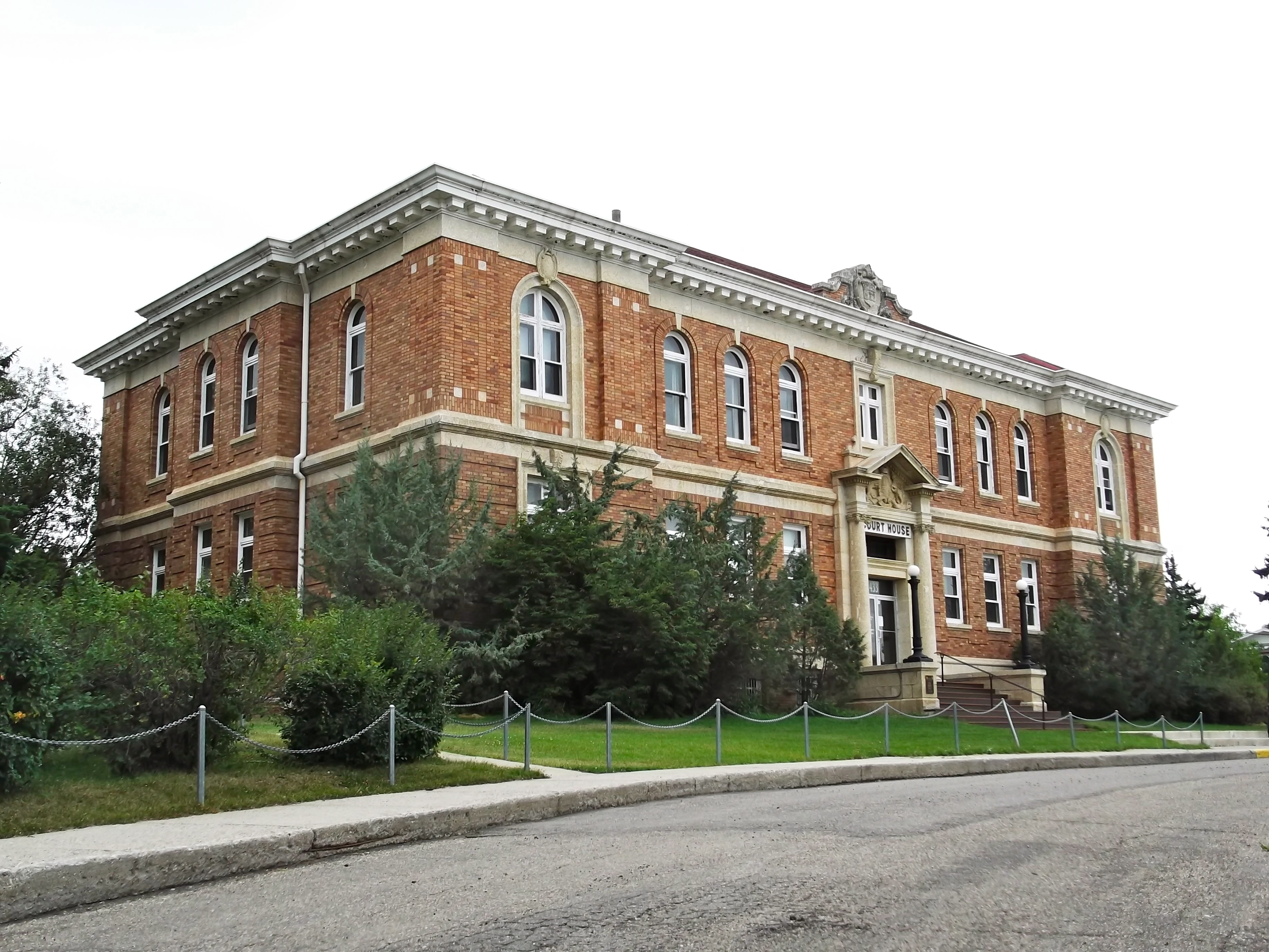 Currently holds the town office, a museum and various offices.